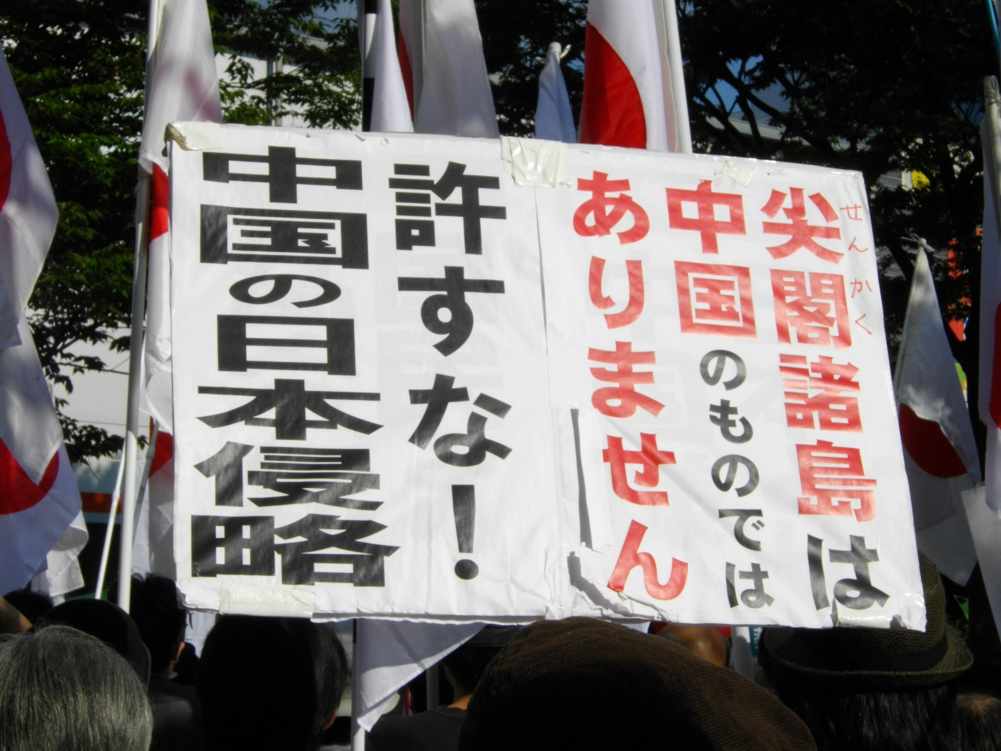 Anti-Chinese government placard bearing the words "Senkaku Islands are not Chinese territories. We will not allow for the Chinese invasion of Japan!"